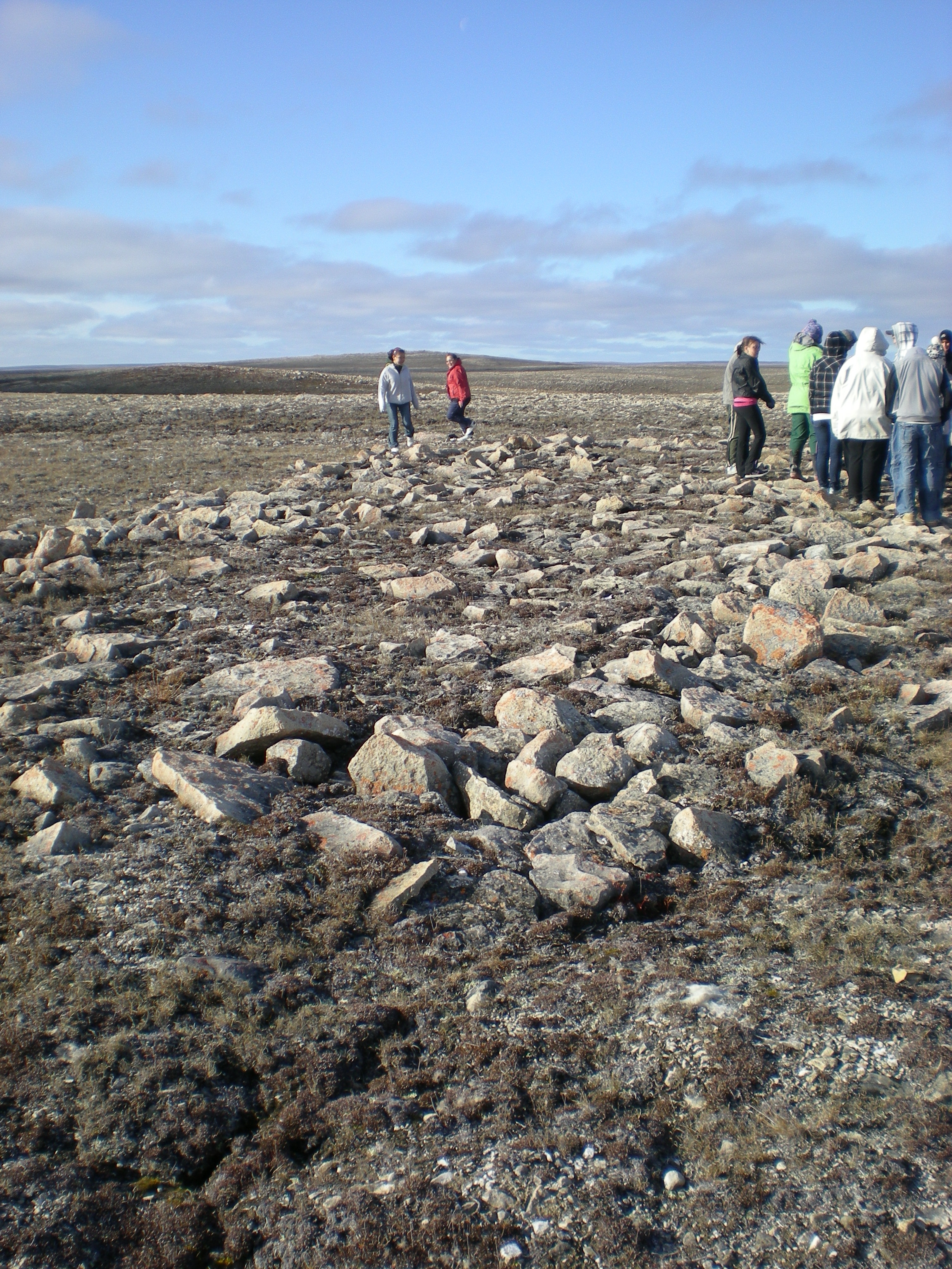 A Dorset culture stone longhouse near Cambridge Bay, Nunavut, Canada. The house was rediscovered by accident when a group returning from another archaeological site flew over the longhouse and noticed it.